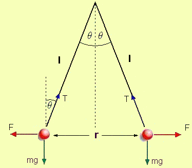 Diagram analysing the operation of a pith-ball electroscope, an early electrical measuring instrument which detects electric charge. When the balls are charged by touching them with an object charged with static electricity, they spread apart in a "V" from to mutual repulsion due to the Coulomb electrostatic force (F). The angle θ is a function of the amount of charge: the larger the charge on the balls the greater the angle of spread.